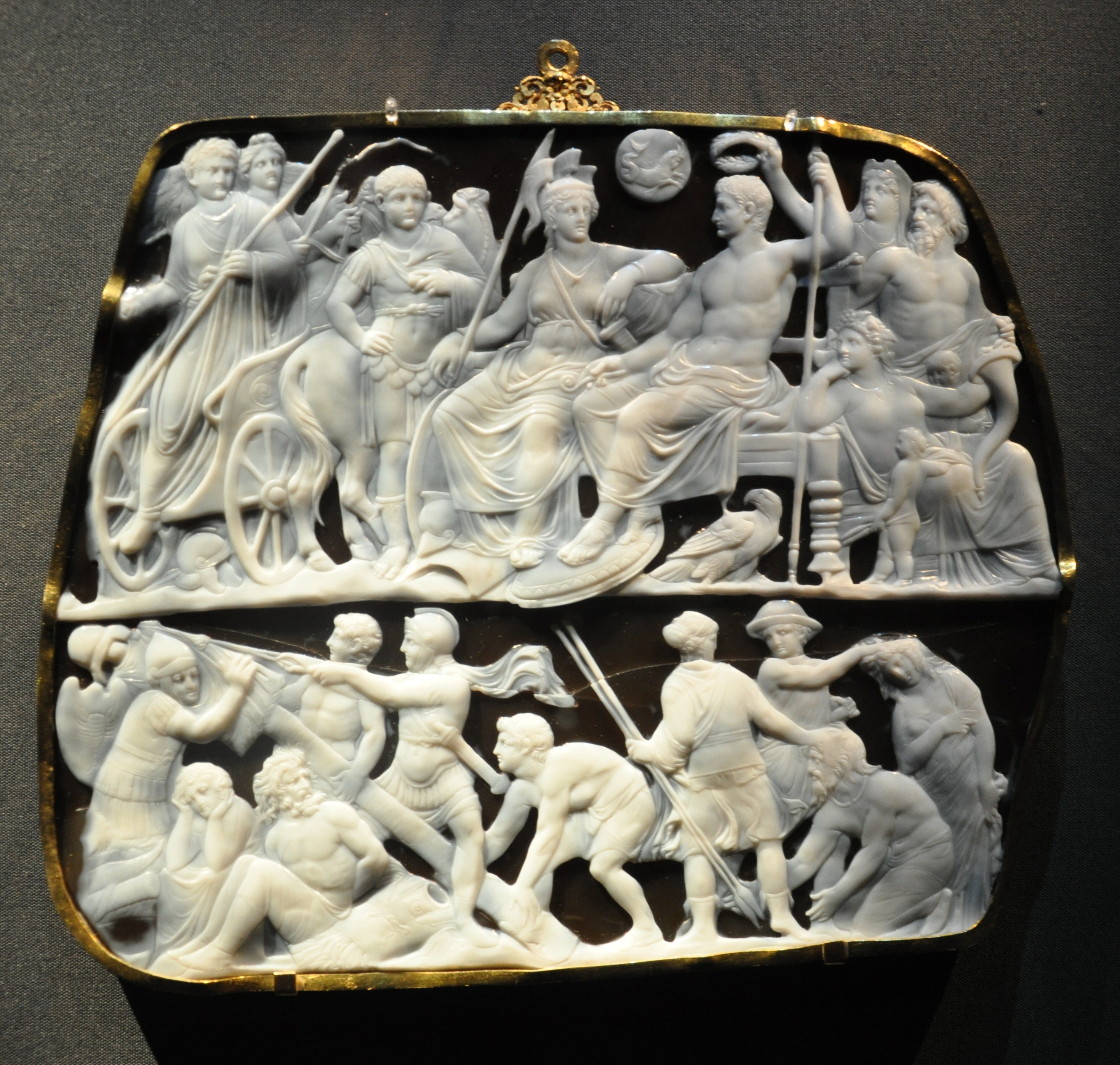 A depiction of Emperor Augustus surrounded by goddesses and allegories. Roman. Two-Layered onyx. Setting: gold frame, reverse side in ornamented open-work; German, 17th century.